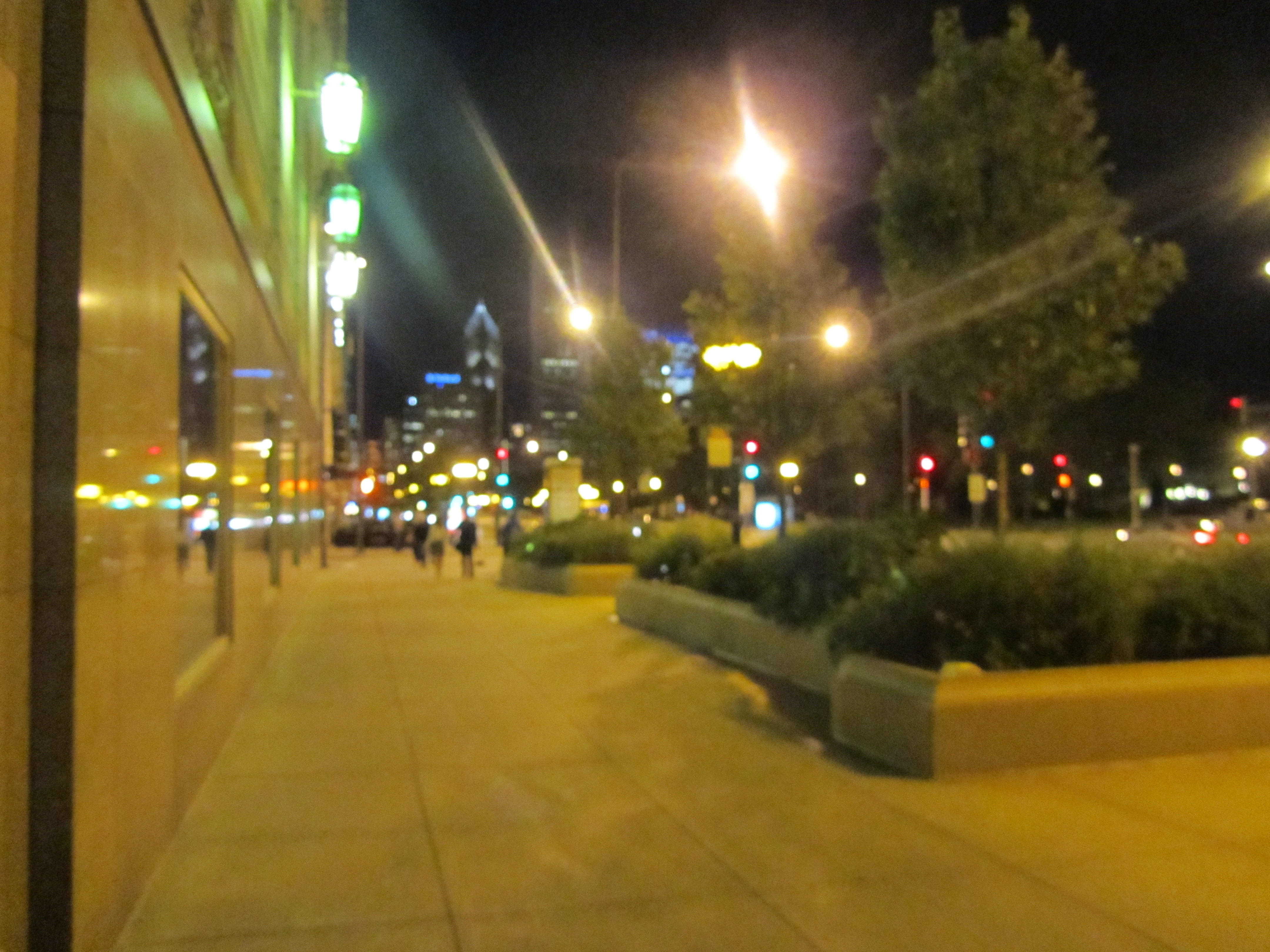 HiltonChicago - marble gable and pavement on front